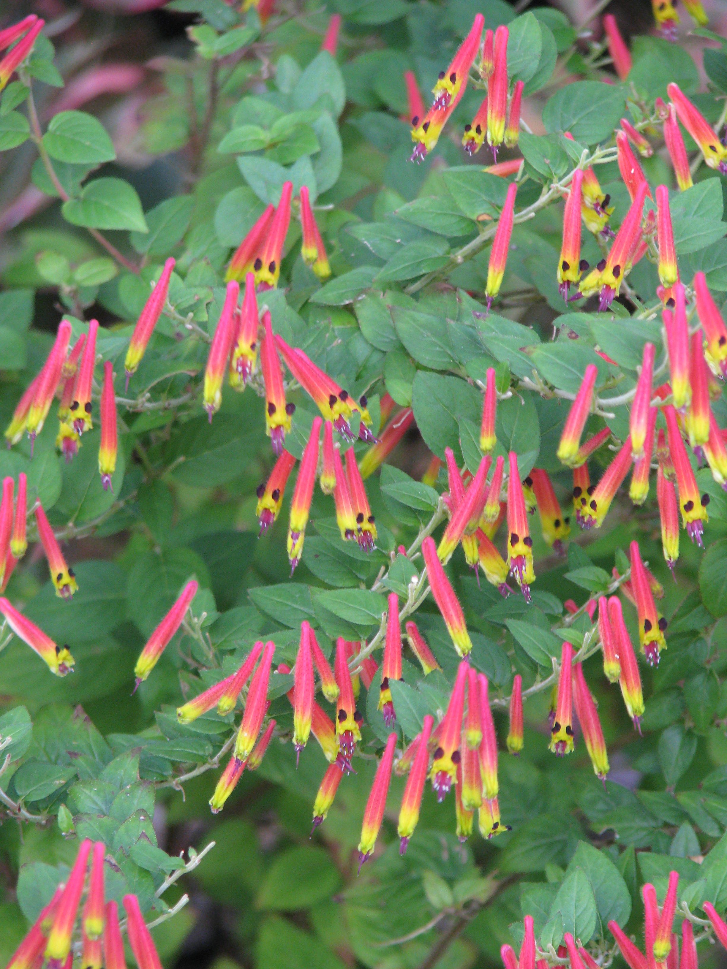 This plant has been in the south-facing house border since before I started at Pool Meadow ten years ago and still going strong